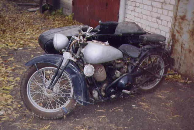 motorcycle TIZ AM-600